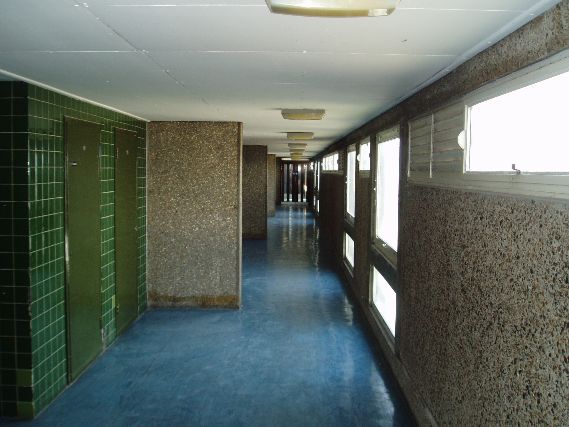 An interior of the Trellick Tower (1972), designed by the brutalist architect Erno Goldfinger and Partners.